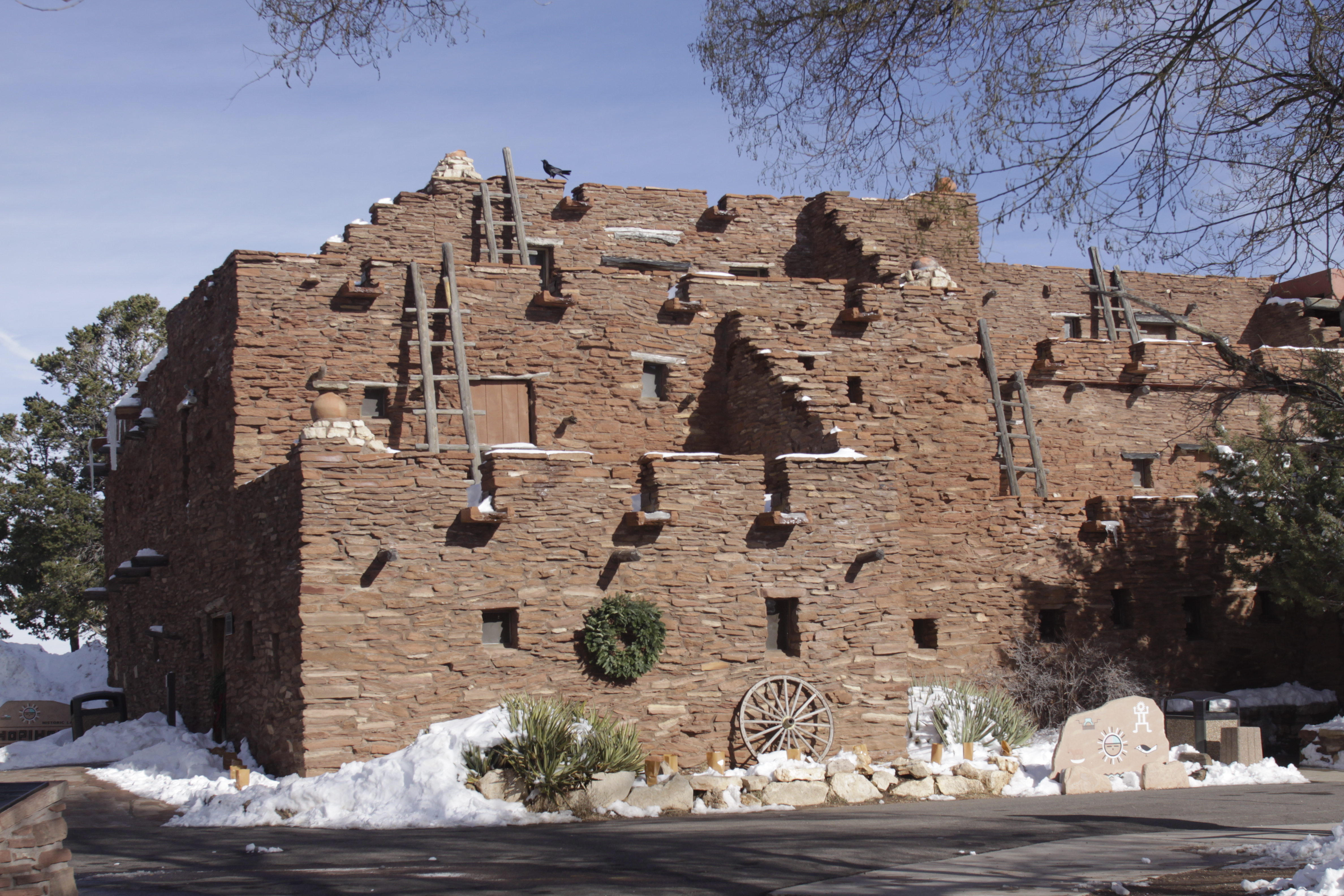 Hopi House — by Mary Jane Colter, in Grand Canyon Village. On the South Rim of the Grand Canyon, Grand Canyon National Park, Arizona.